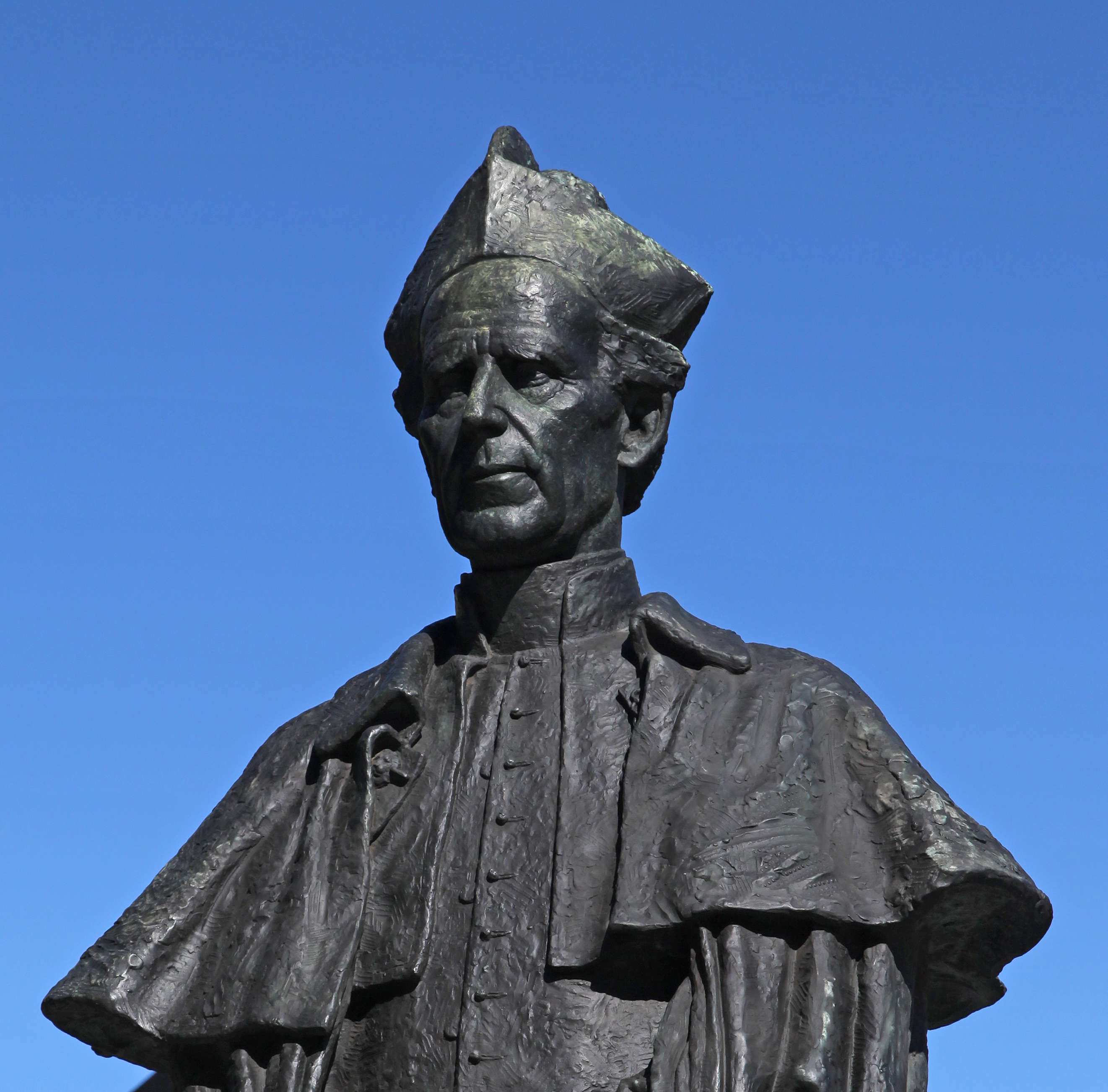 Archbishop Daniel Mannix bronze statue at the right side of the main entrance of St Patrick's Cathedral, Melbourne